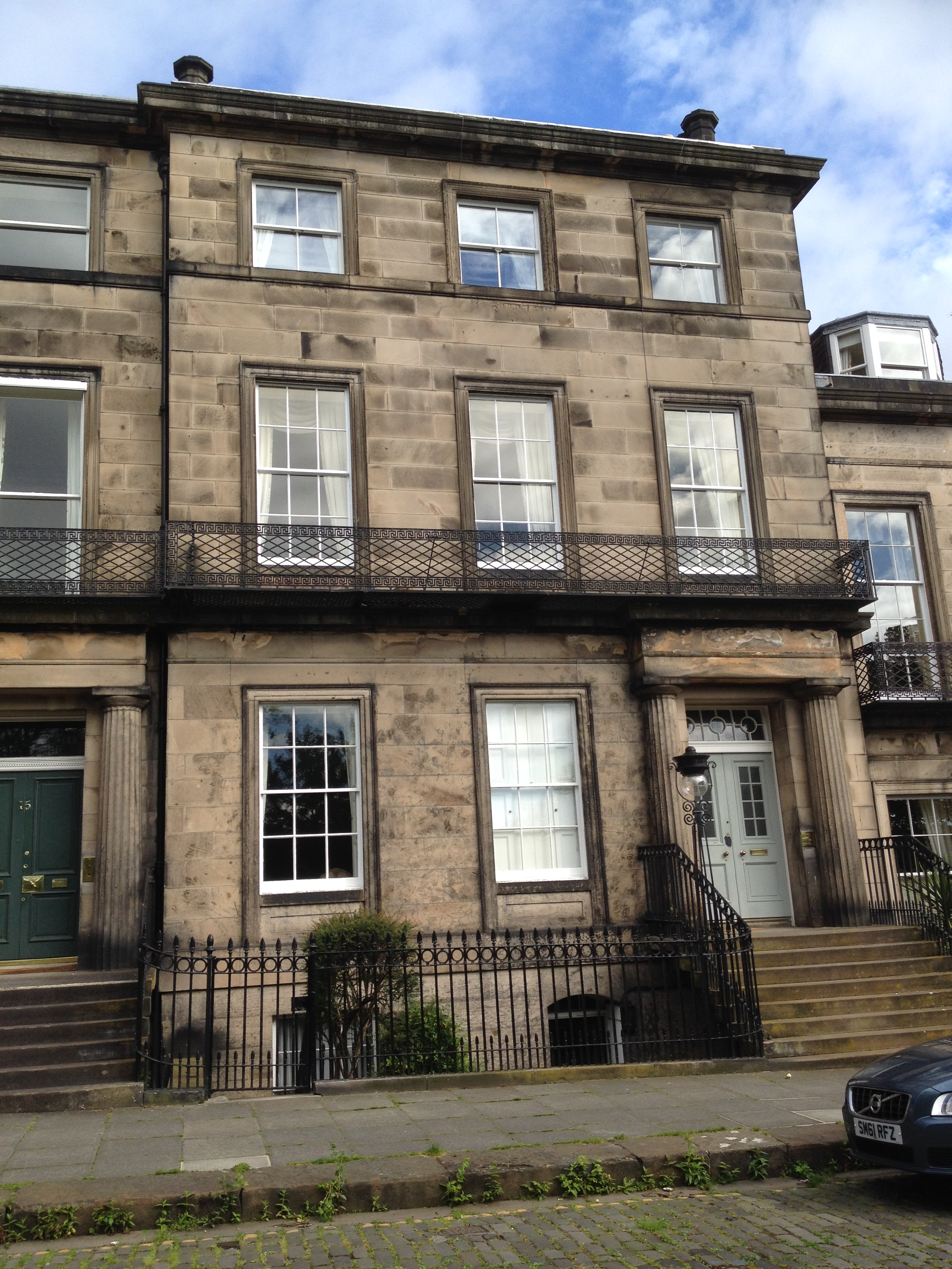 The front of 16 Regent Terrace, Edinburgh Wikidata has entry Q17567425 with data related to this item.